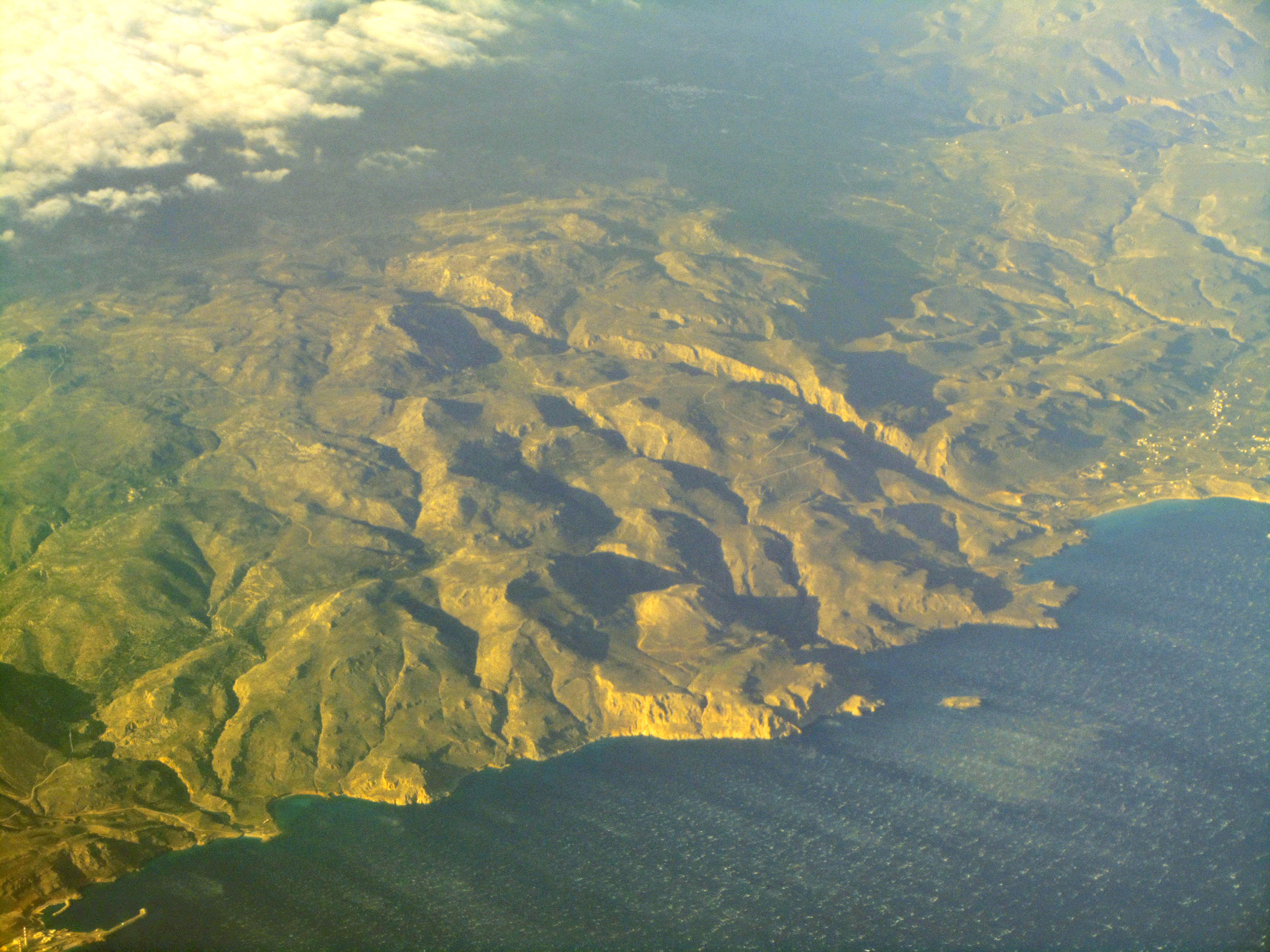 Coast of Crete in the south east between Atherinolakkos and Xerokampos